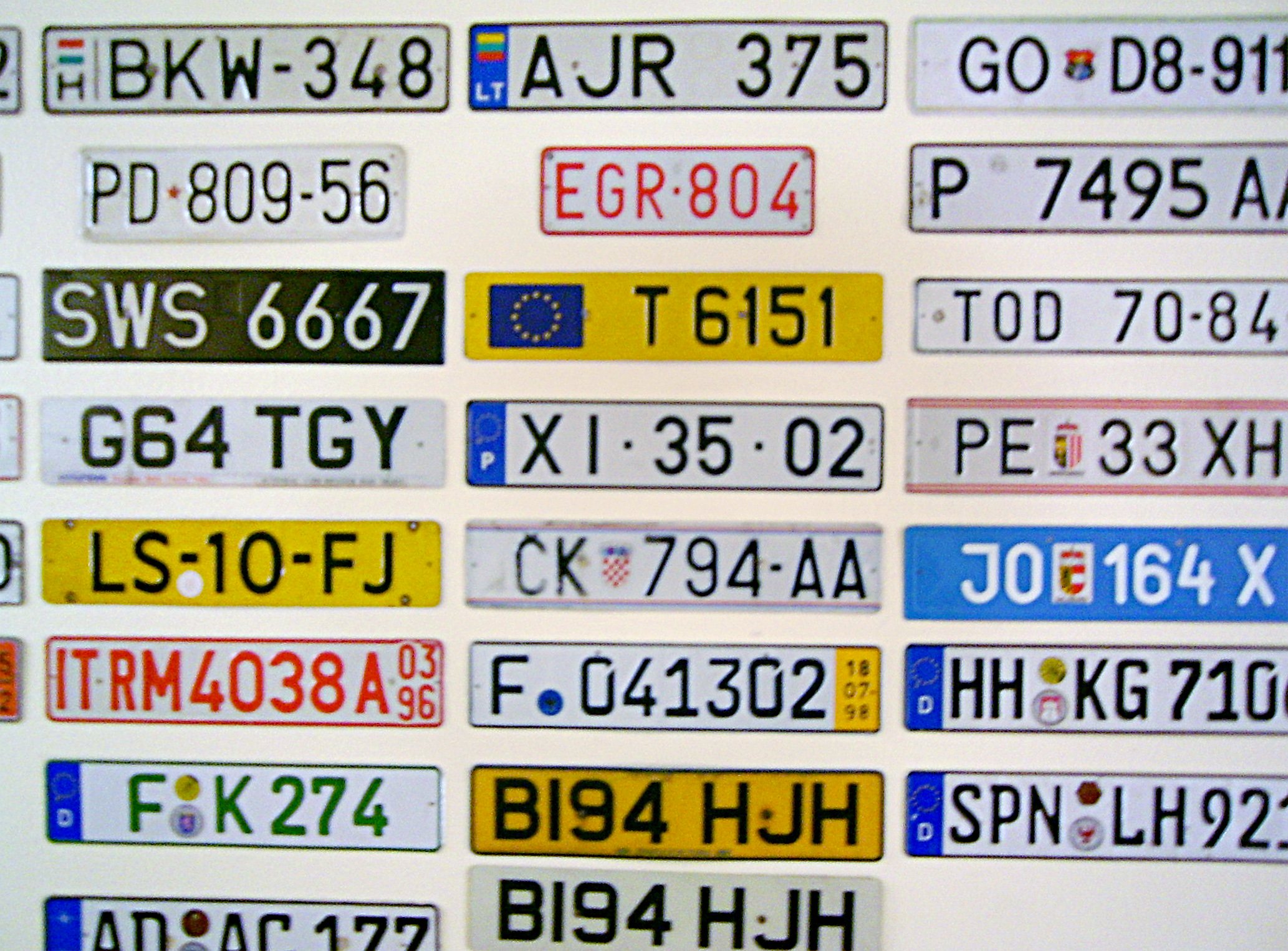 registration plates from different countrys - left column: Hungary, Yugoslavia, Poland, Great Britain, Netherlands, unknown, Germany, US Armed Forces in Germany / center column: Lithuania, Belgium, Luxembourg, Portugal, Croatia, Germany, Great Britain, Great Britain / right column: Slovenia, Bulgaria, Czechoslovakia, Austria, Austria, Germany, Germany